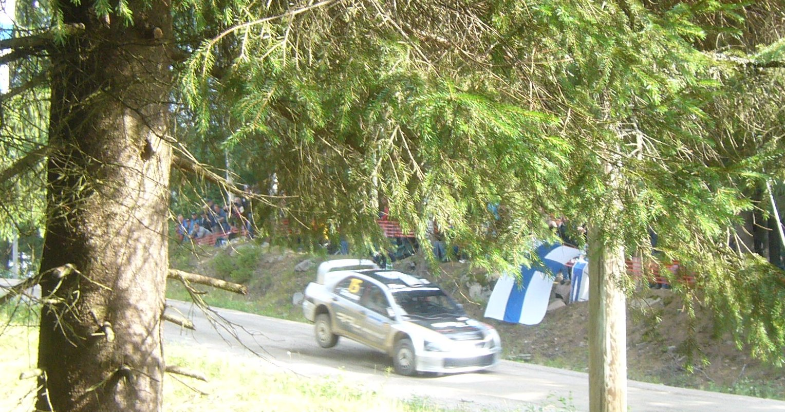 Finnish WRC rally driver Juho Hänninen in Palsankylä special stage, Neste Oil Rally Finland 2007.